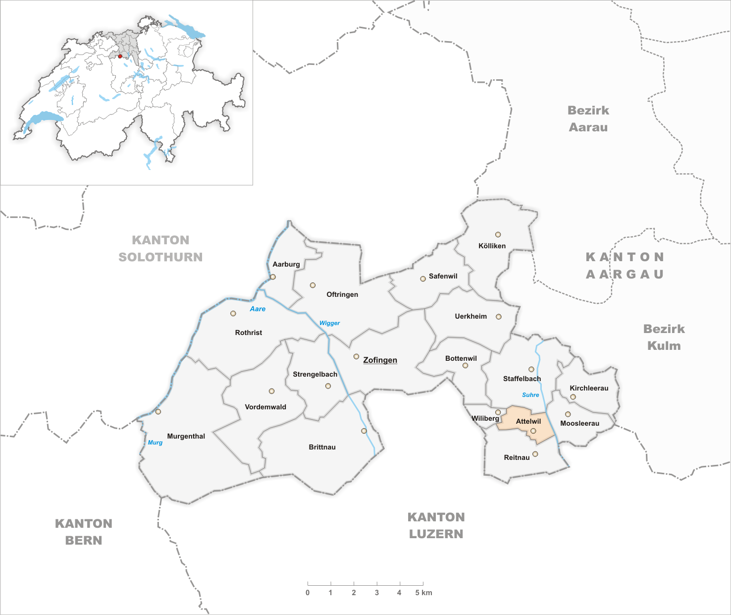 Municipality Attelwil